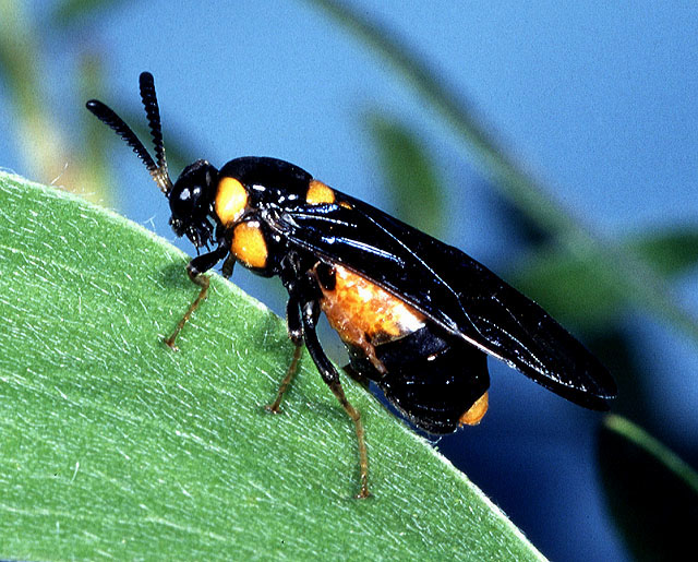 Melaleuca sawfly adult from Thumbnail Image Number K7873-11 A melaleuca sawfly (Lophyrotoma zonalis) adult prepares to deposit eggs on a melaleuca leaf. Photo by Jason Stanley.